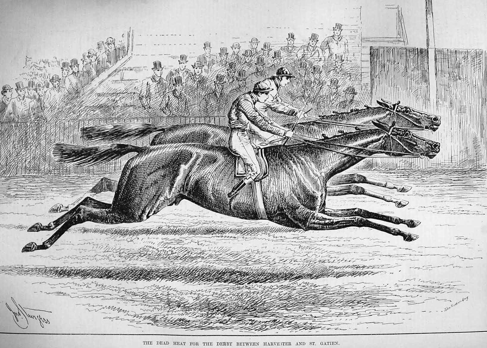 The finish of the 1884 Epsom Derby. Harvester (near side) dead-heats with St Gatien. From the Illustrated London News.